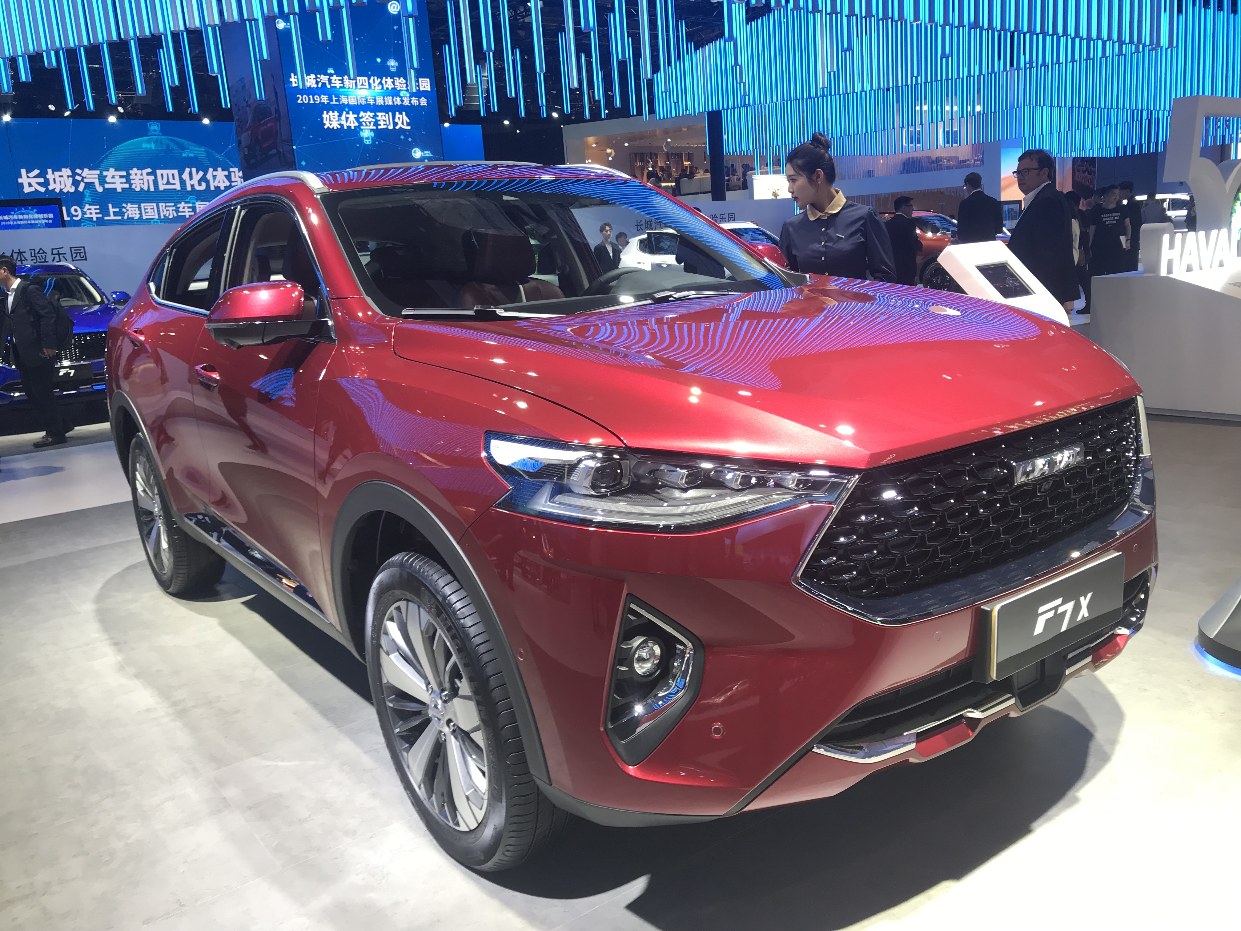 Haval F7x front